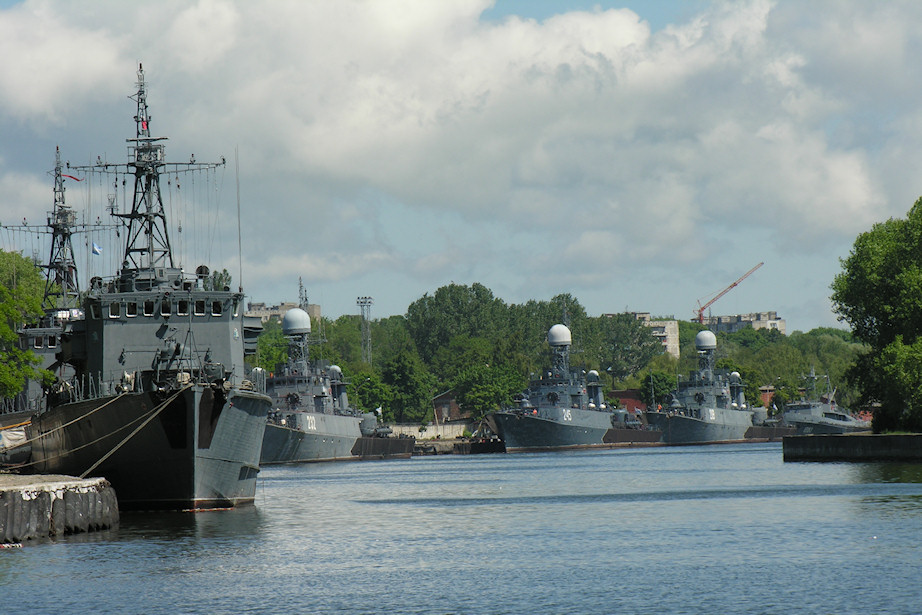 Baltic fleet ships at Baltiysk